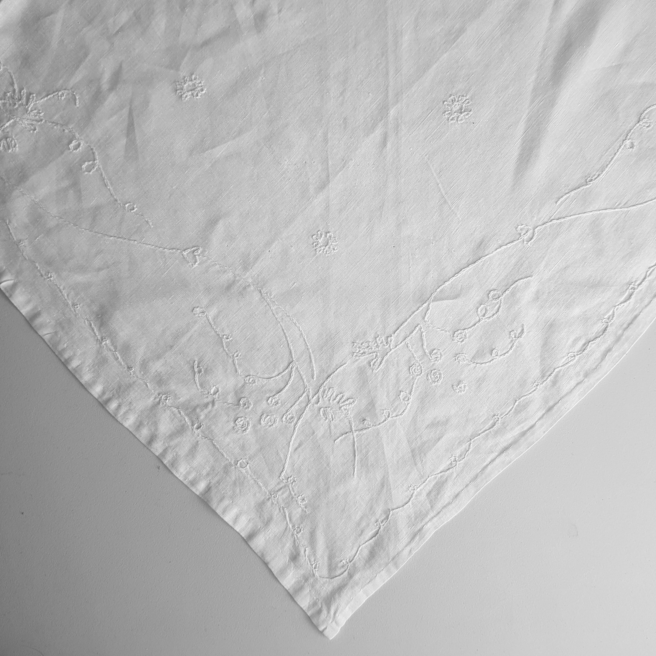 Forshaga-Grava Folk costume Scarf Side Point